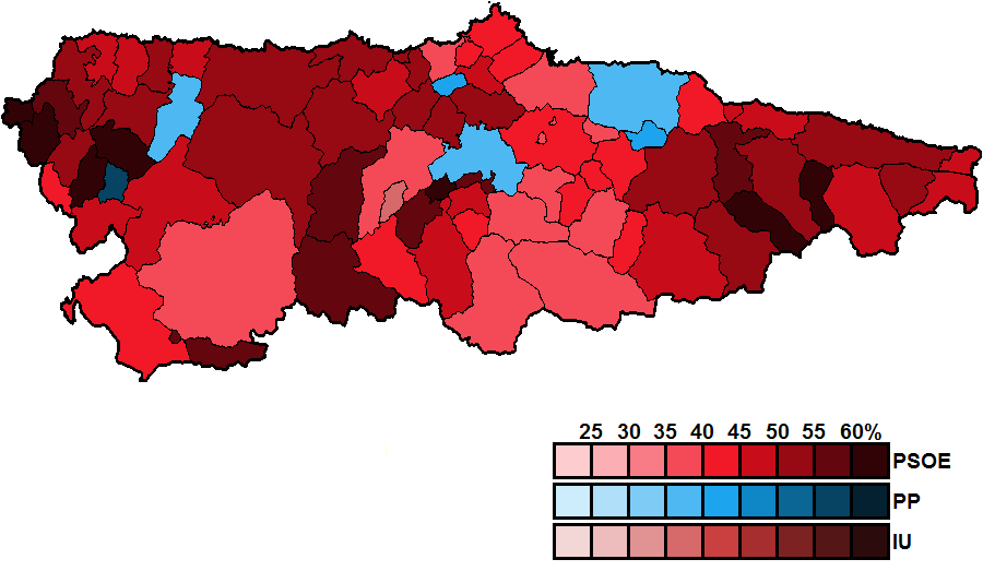 Most-voted party in Asturias municipalities, showing vote share obtained, in the Spanish general election, 1989.